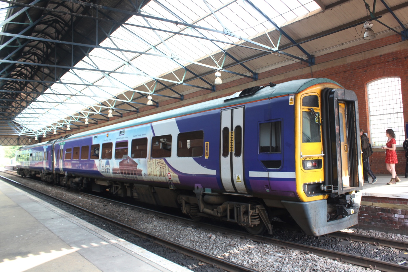 Northern's 158907 at Beverley with a Scarborough to Hull service.